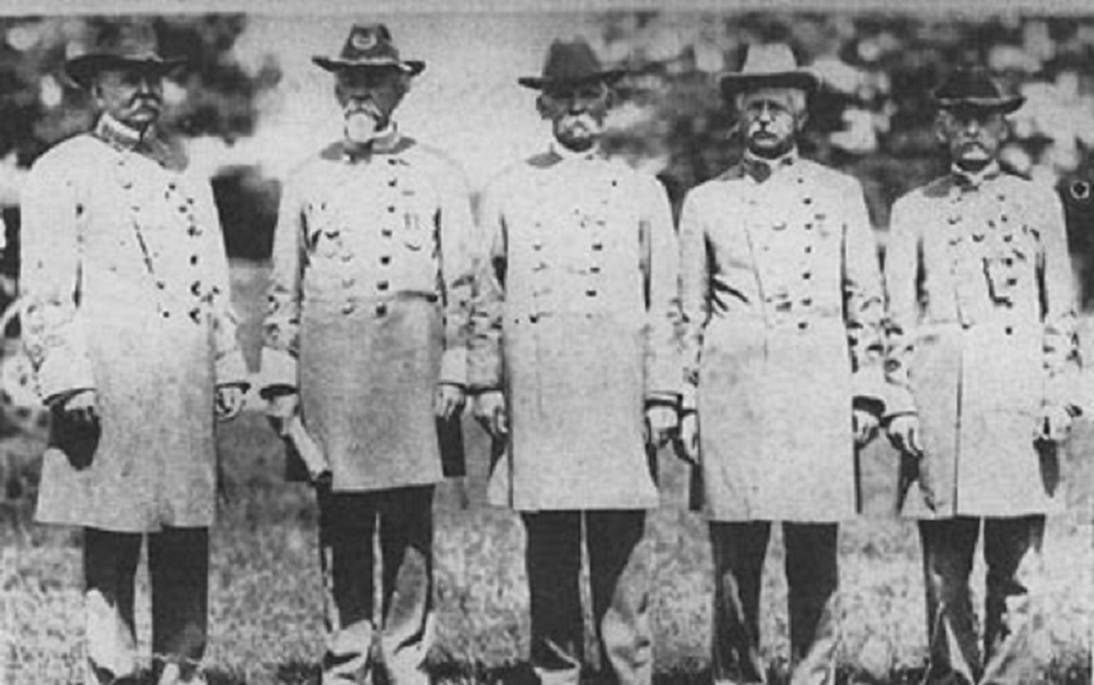 Colonel James Blount's Macon Georgia Civil War command (1912 reunion).